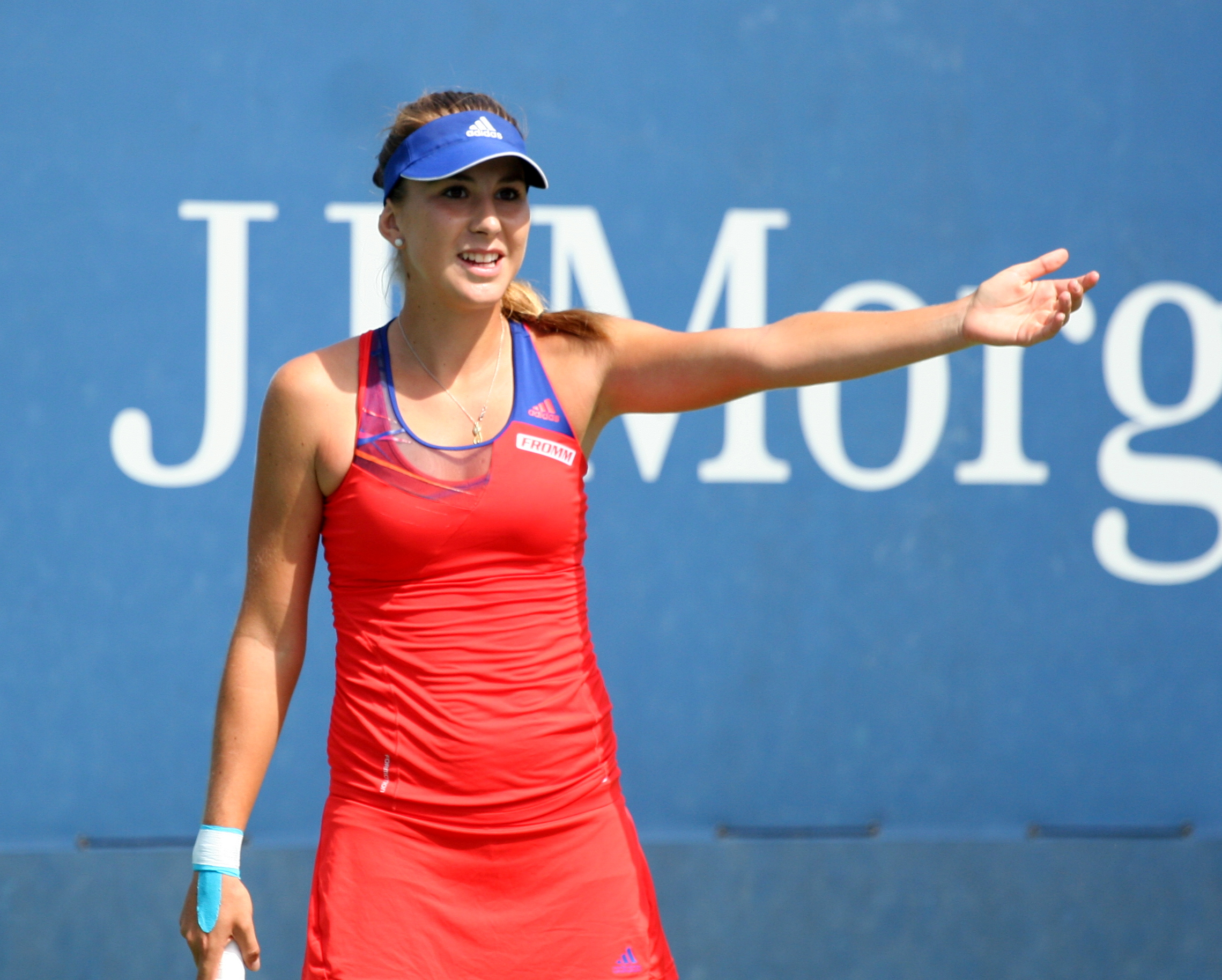 Belinda Bencic at the 2013 US Open